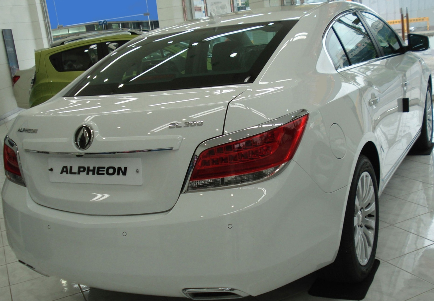 Daewoo Alpheon